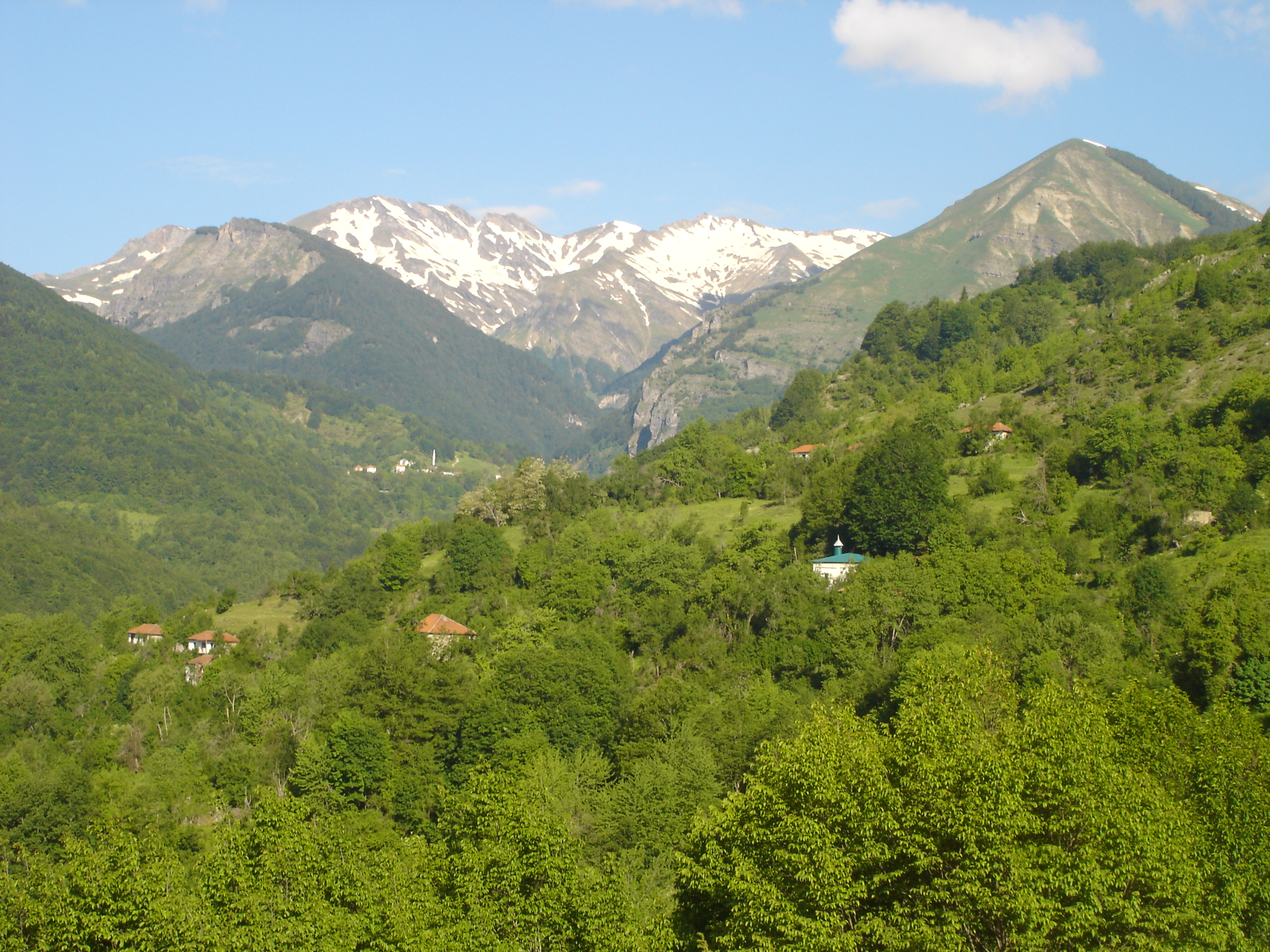 villages Ribnica and Tanushe on Korab Mountain, Macedonia